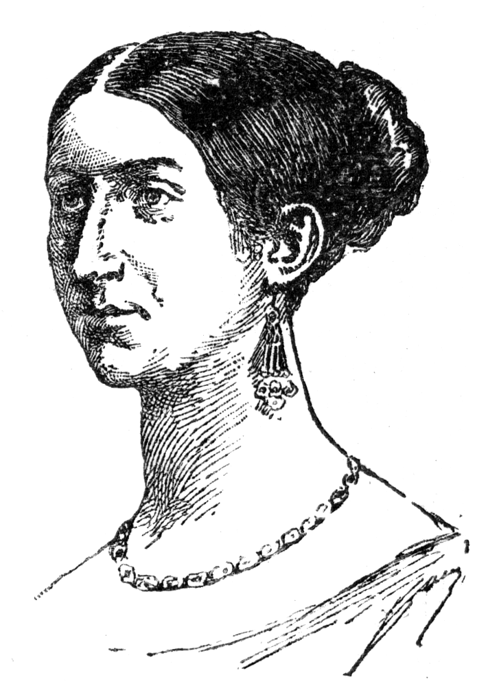 Engraving of Marie-Cornélie Falcon